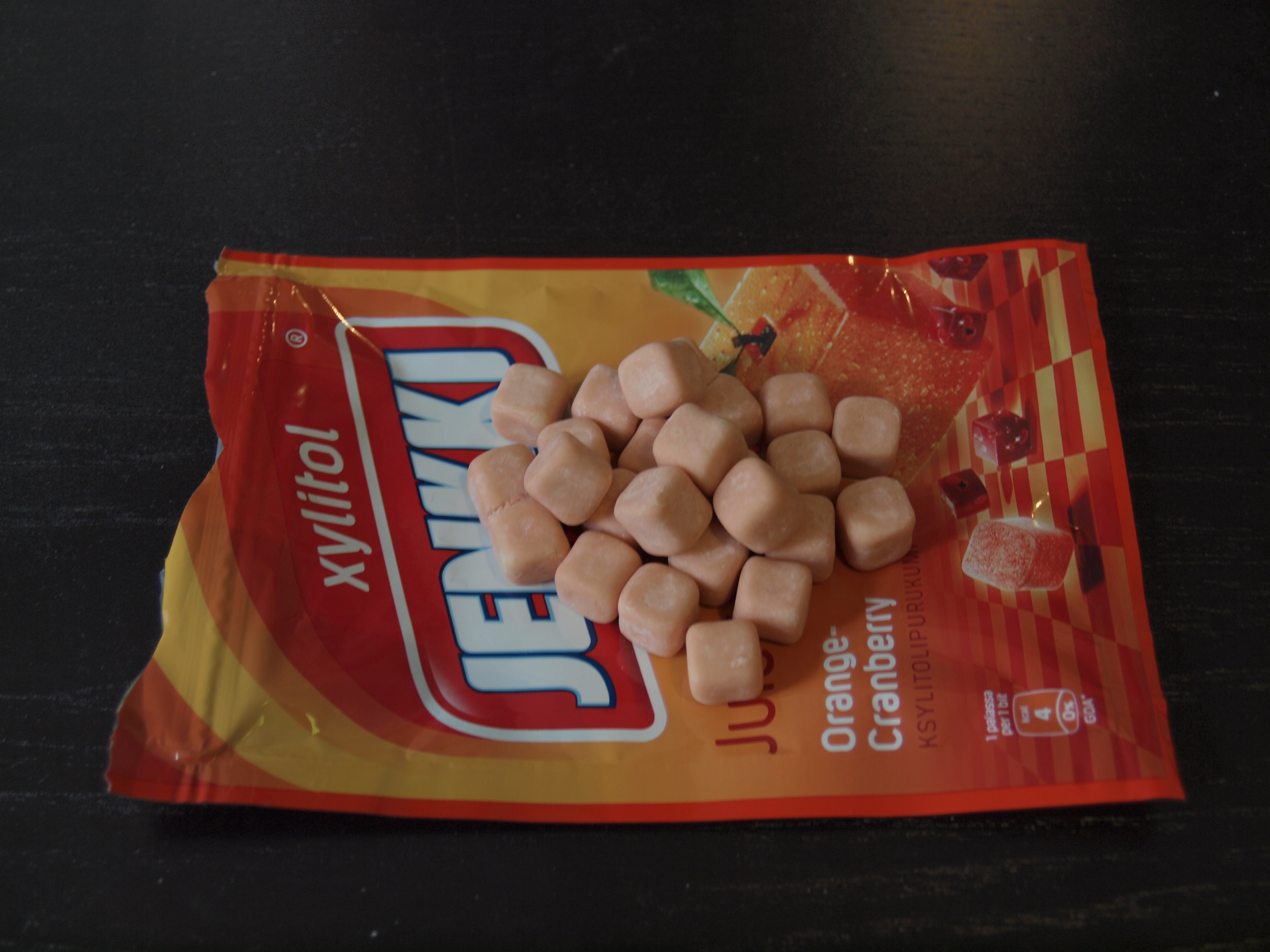 Orange and cranberry flavoured "Juicy Cube" chewing gum by the Finnish Jenkki brand.